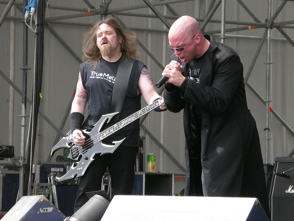 Canadian Heavy metal band Exciter